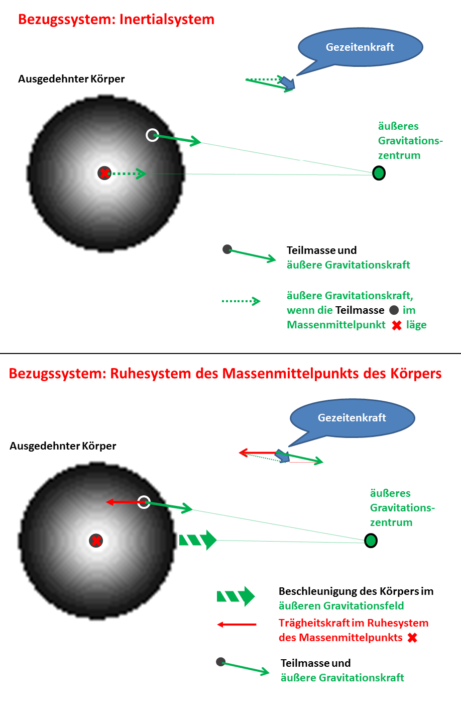 Tidal force explained in inertialsystem and in body system